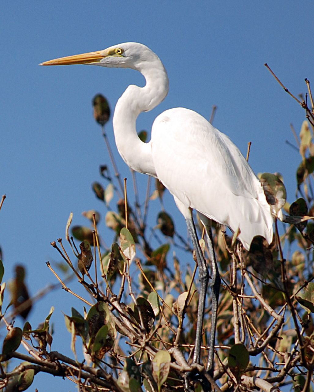 The Great Egret Ardea alba, also known as the Great White Egret, White Heron, or Common Egret, is a wading egret, found in most of the tropical and warmer temperate parts of the world, although it is very local in southern Europe and Asia. It is called Kōtuku in New Zealand. It is sometimes confused with the Great White Heron in Florida, which is a white morph of the Great Blue Heron. A Great Egret right after an attempt at catching a fish. Great egret is landing at the lake in Golden Gate Park, San FranciscoThe Great Egret is a large bird with all white plumage that can reach 101 cm in height and weigh up to 950 g. It is only slightly smaller than the Great Blue or Grey Herons. Apart from size, the Great Egret can be distinguished from other white egrets by its yellow bill and black legs and feet. It also has a slow flight, with its neck retracted. This is characteristic of herons and bitterns, and distinguishes them from storks, cranes and spoonbills, which extend their necks.